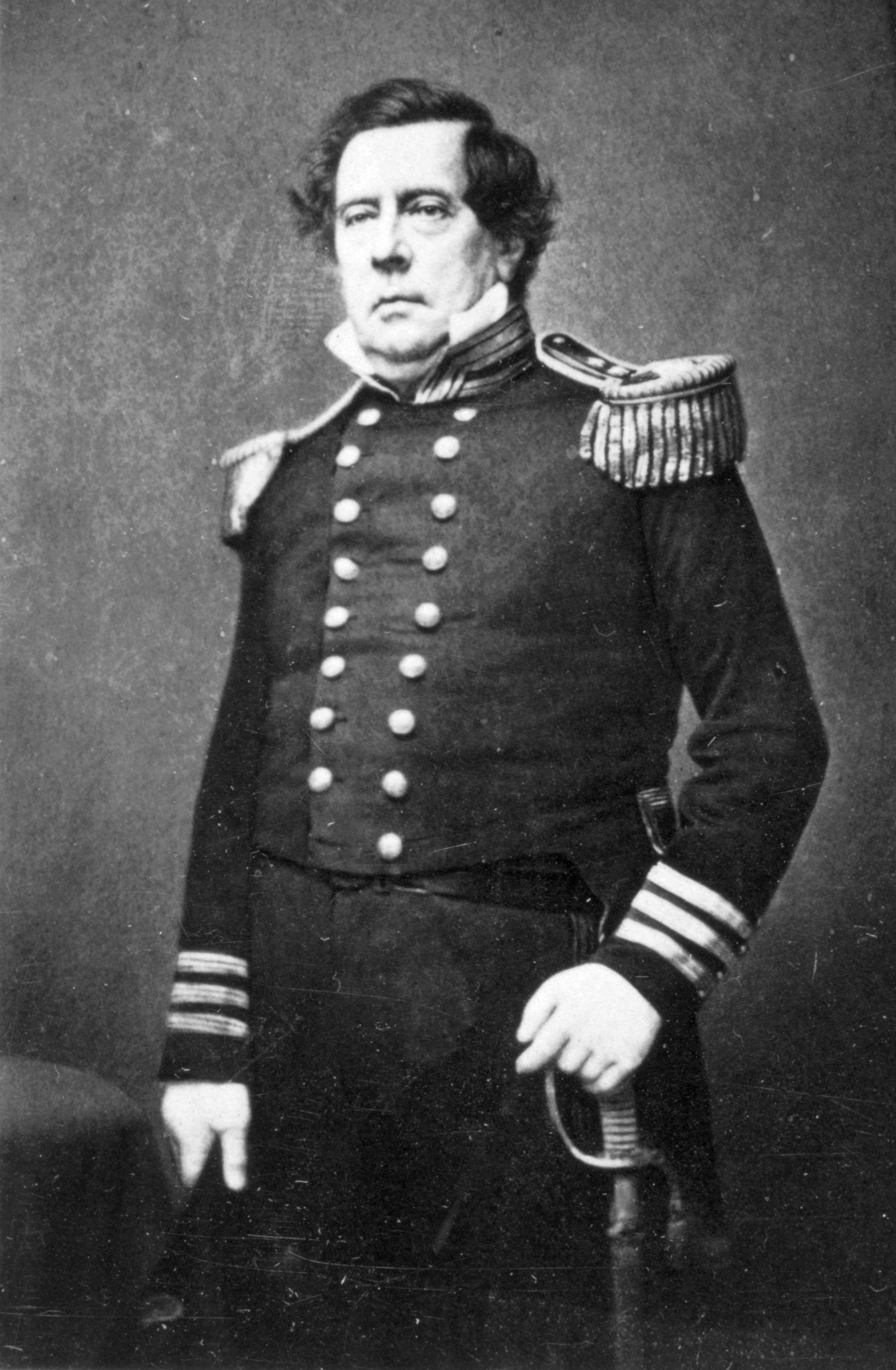 Commodore Matthew C. Perry (1794-1858)